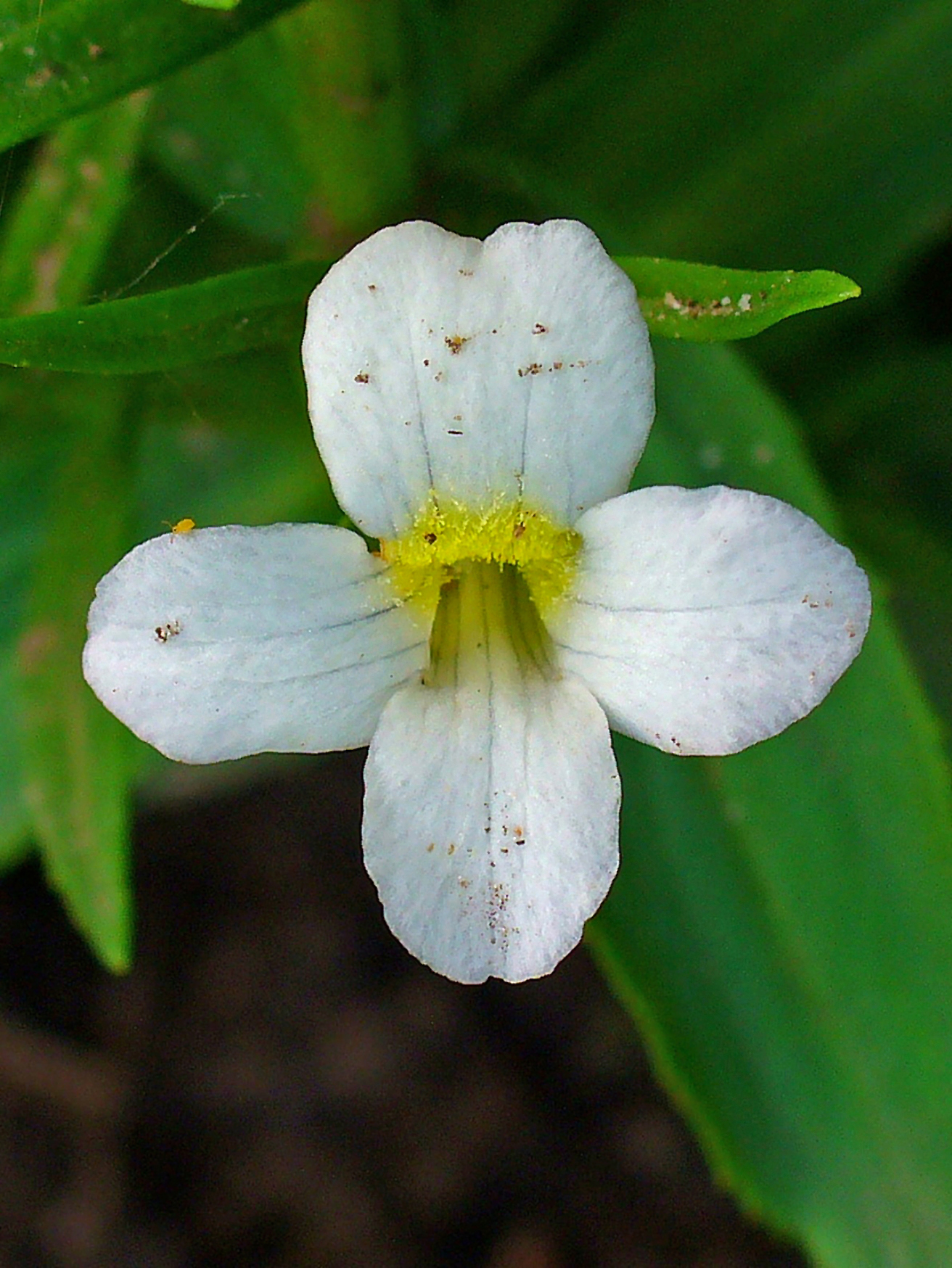 Gratiola officinalis, Plantaginaceae, Common Hedgehyssop, flower. The fresh, aerial parts collected at bloom are used in homeopathy as remedy: Gratiola (Grat.)